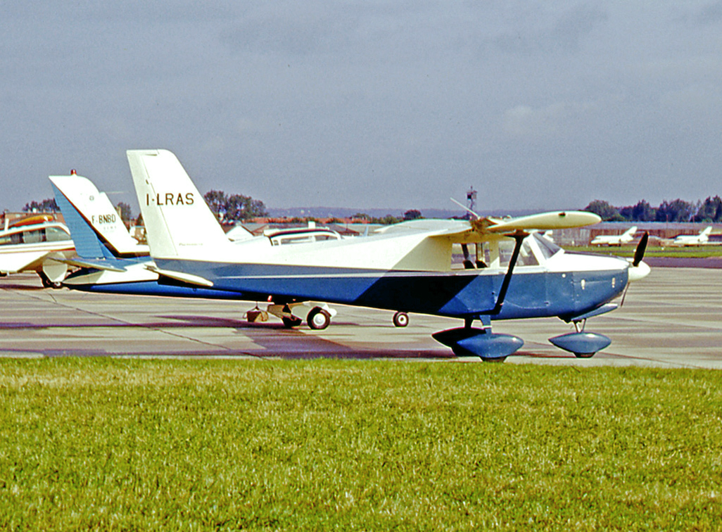 Partenavia P.64 Oscar prototype I-LRAS at the 1965 Paris Air Show